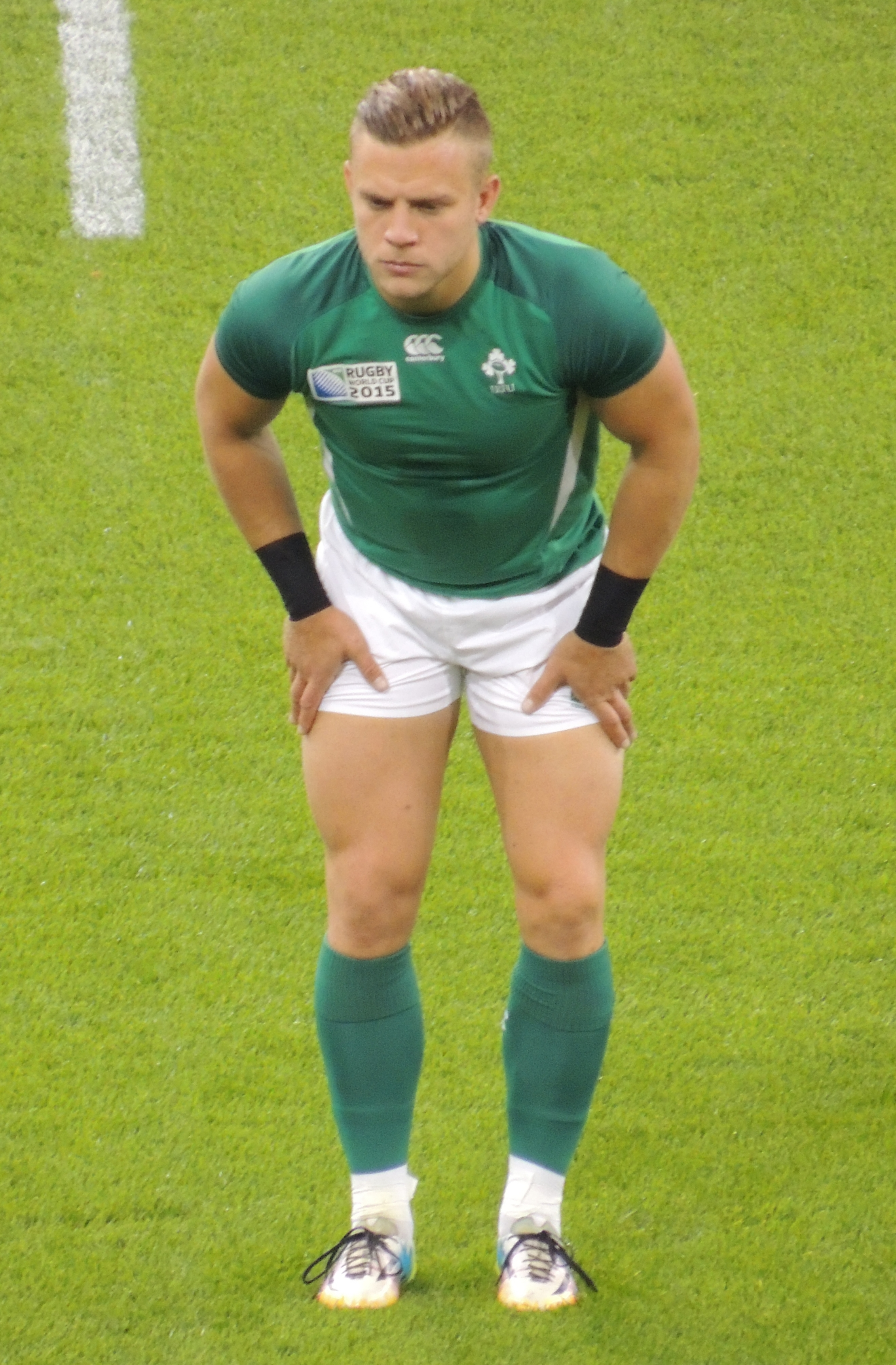 Irish rugby union player Ian Madigan playing in 2015 Rugby World Cup game Ireland vs Canada at Millennium Stadium in Cardiff.